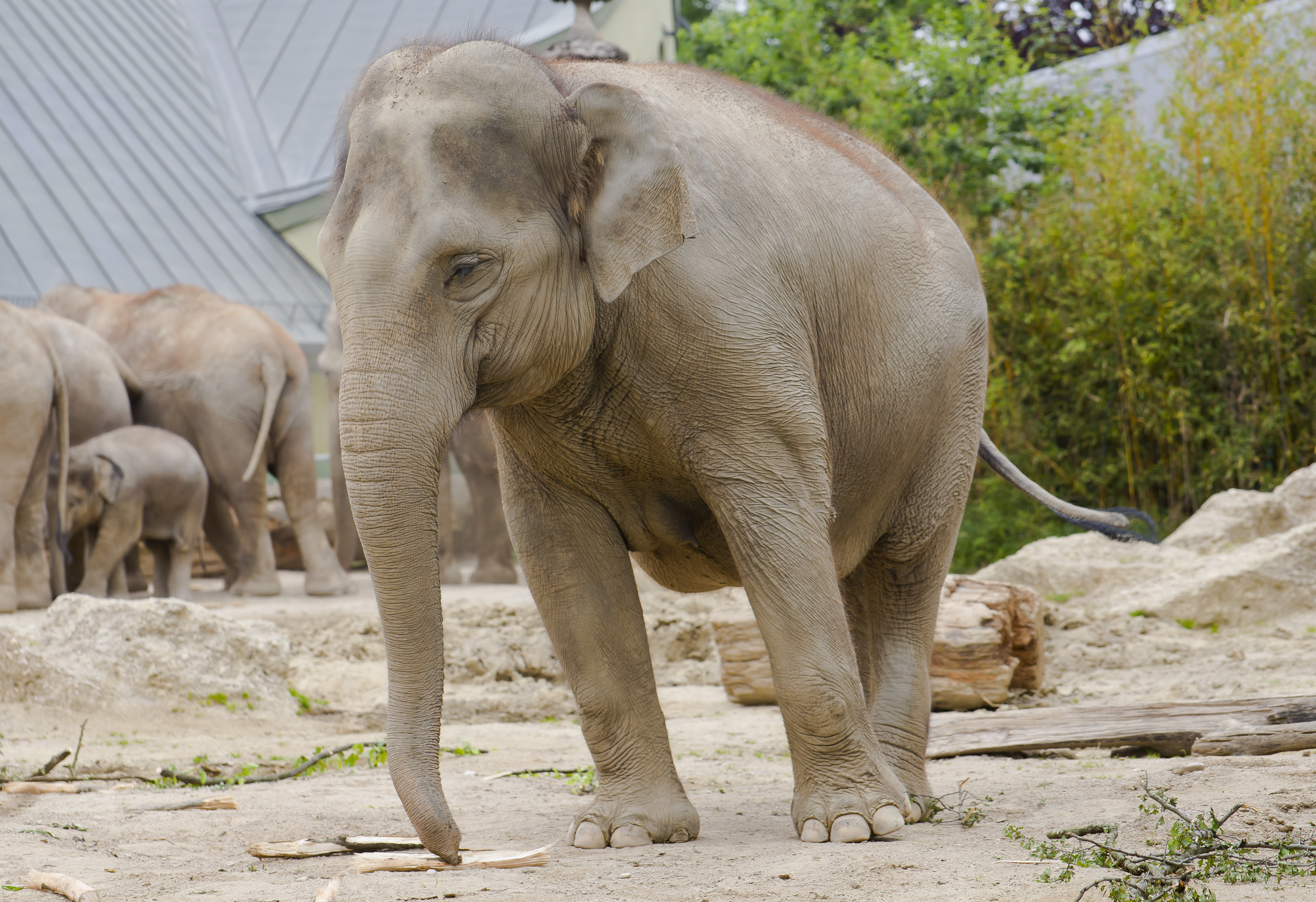 Asian elephant (Elephas maximus), Tierpark Hellabrunn, Munich, Germany